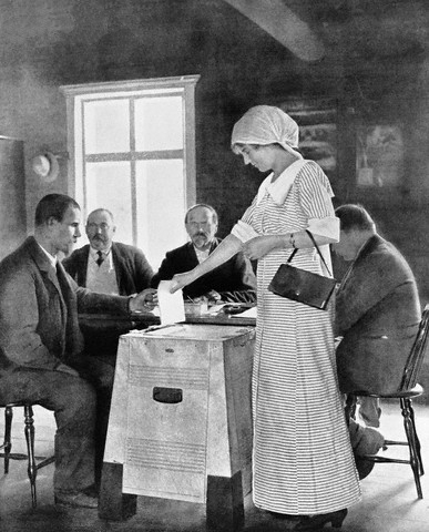 Finland: A Finnish woman voting at a Parliamentary Election. Woman is standing as she puts her vote into ballot box as men sit and watch.